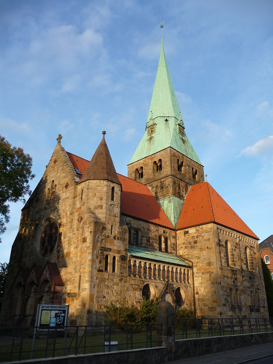 Lutheran St. Michael's Church in Bremen-Vegesack/Grohn